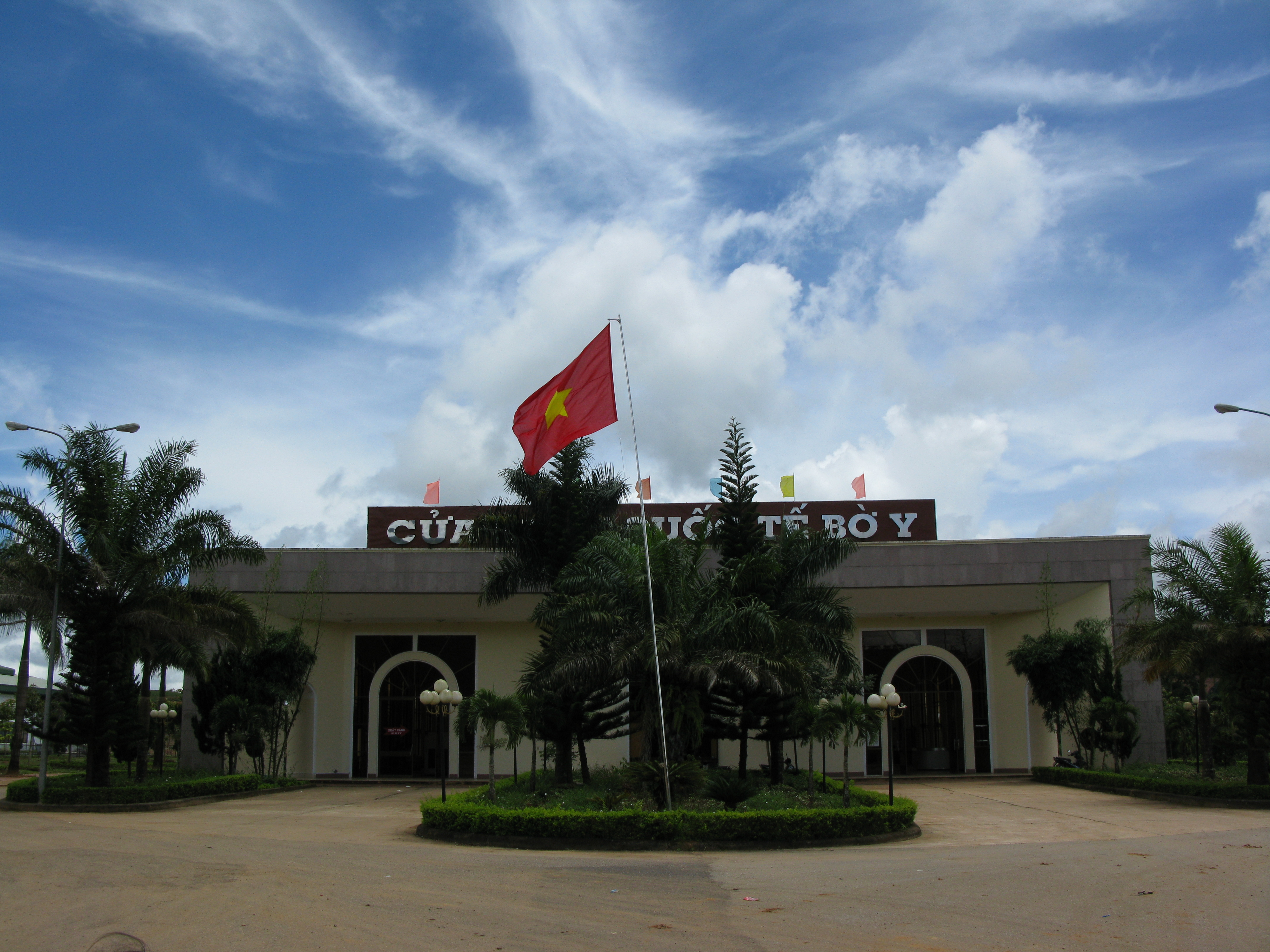 The main building of Bo Y Border Gate (Kon Tum Province) in Vietnamese-Lao PDR border.